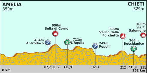 Tirreno Adreatico 2012 stage 4